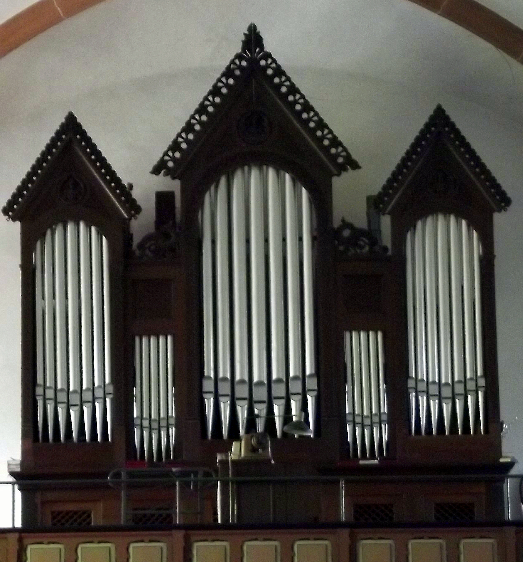 Organ of Kostenbach Church